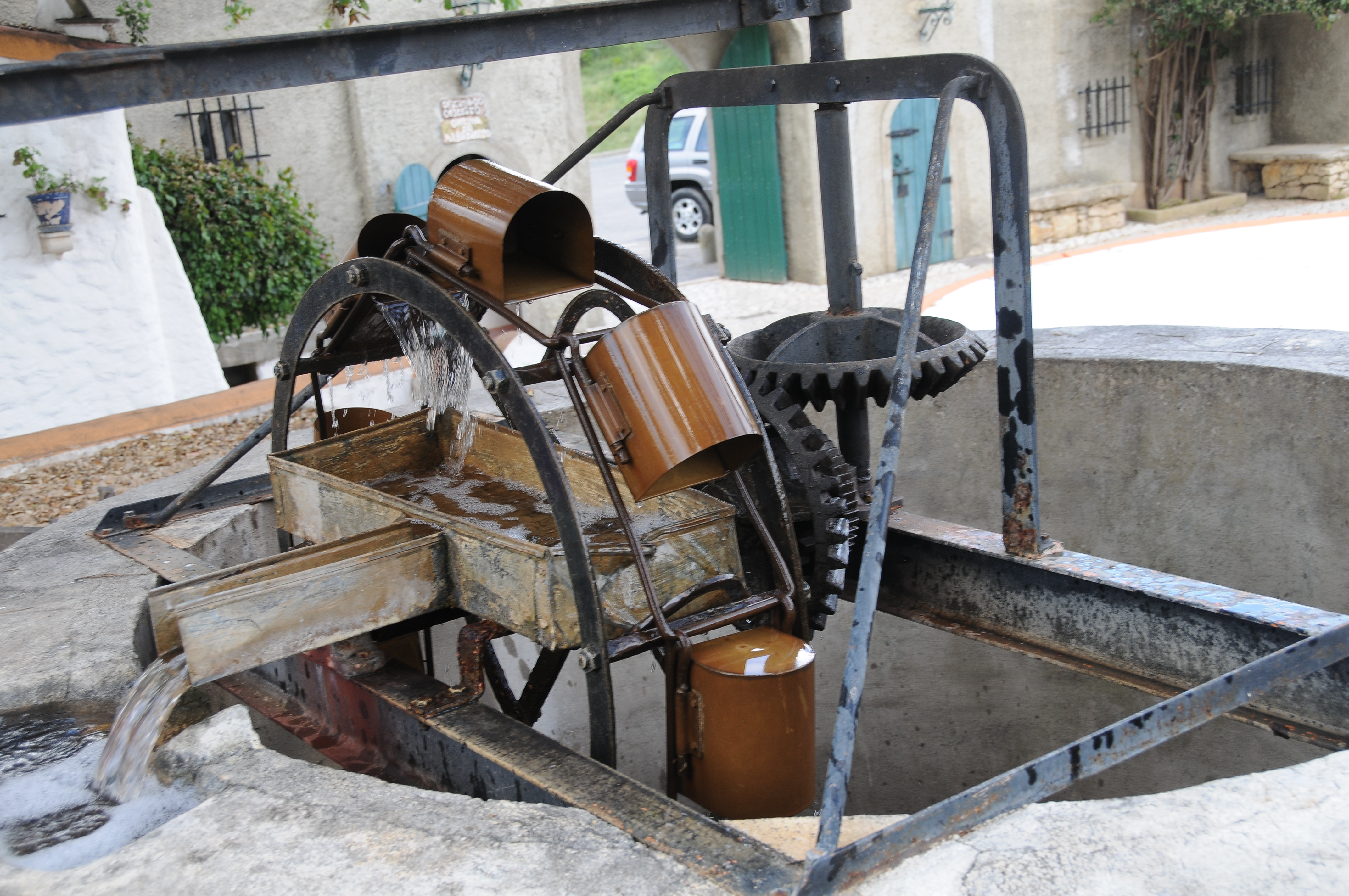 Aldeia típica de José Franco, Mafra, Lisbon district, Portugal